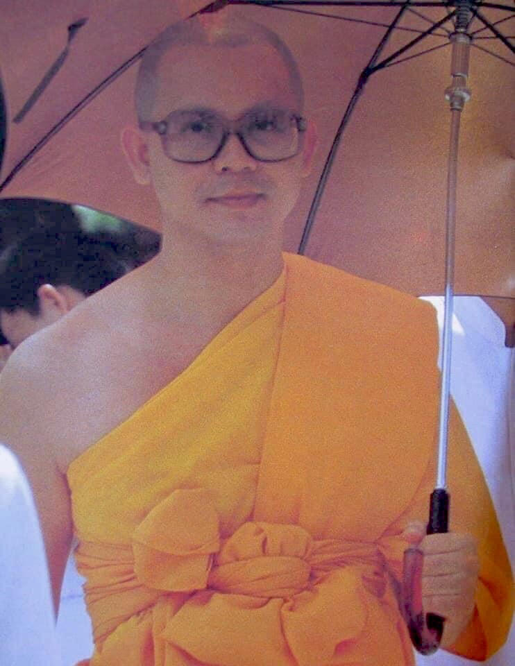 Luang Por Dhammajayo in early years, holding an umbrella